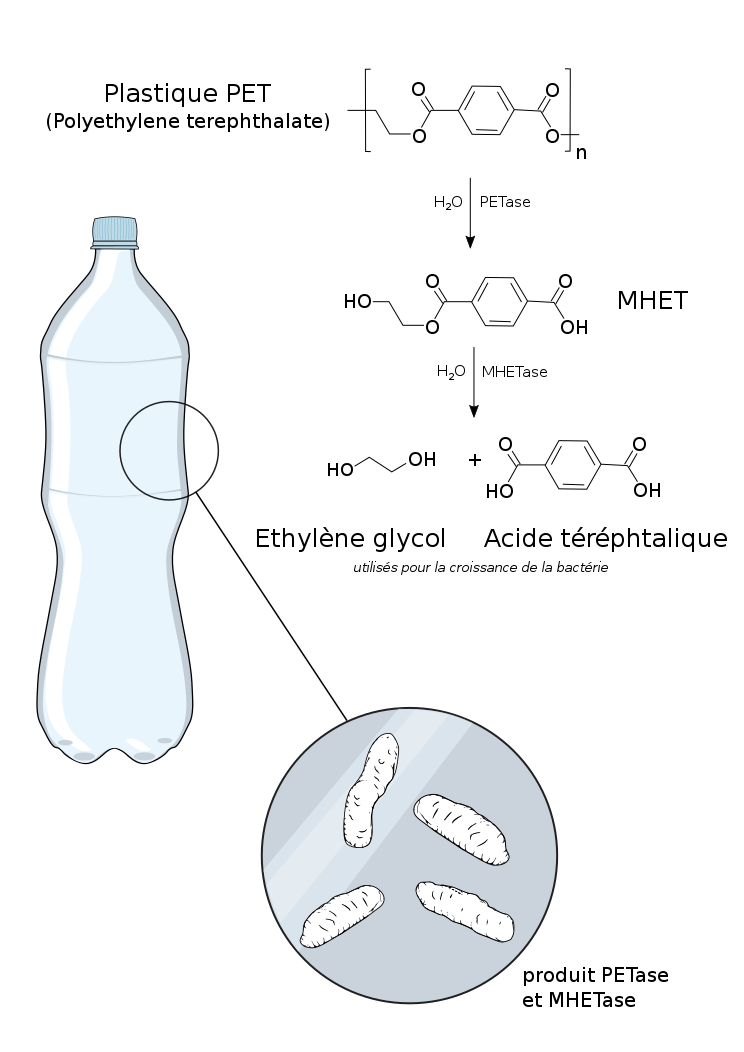 Plastic breakdown by PETase